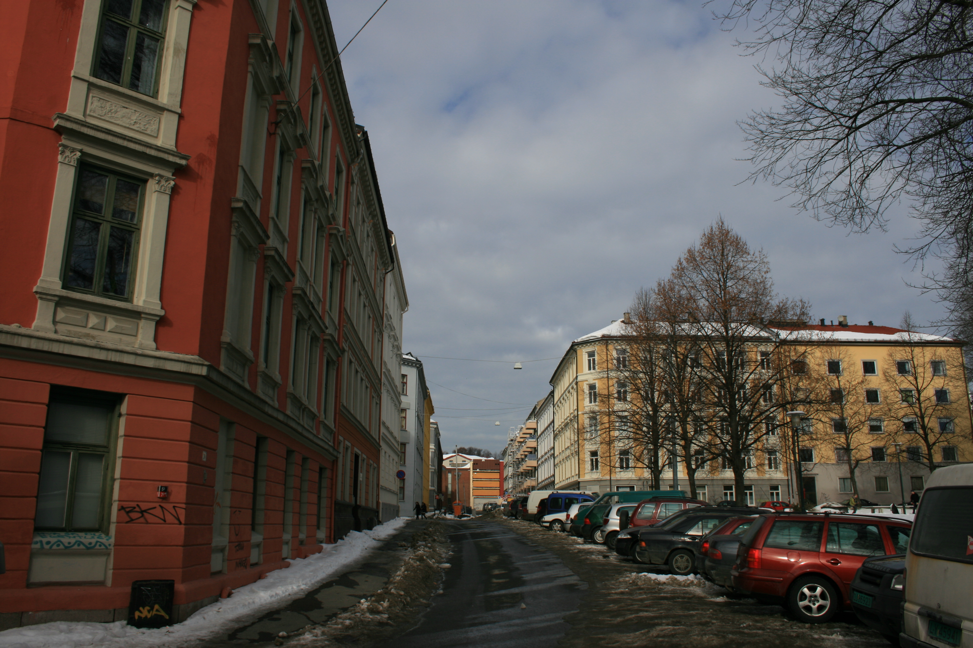 Falsens gate 20-22, Grünerløkka, Oslo.